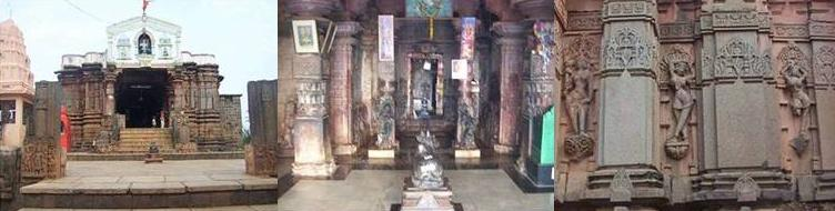 jalsangvi Temple Ashture Umesh, Renu Graphics, Bidar. cell: +91-9448222785